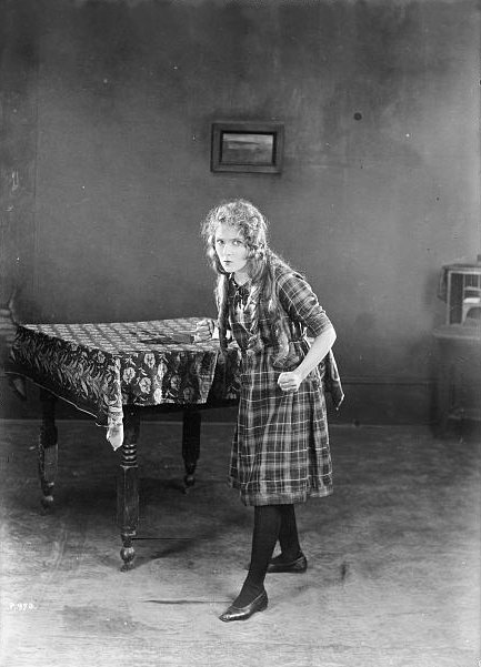 LIBRARY OF CONGRESS: No known restrictions on publication. TITLE: Mary Pickford in Little Annie Rooney (1925) CALL NUMBER: LC-B2- 6357-3[P&P] REPRODUCTION NUMBER: LC-DIG-ggbain-38047 (digital file from original negative). No known restrictions on publication. MEDIUM: 1 negative : glass ; 5 x 7 in. or smaller. CREATED/PUBLISHED: [no date recorded on caption card] NOTES: Title from unverified data provided by the Bain News Service on the negatives or caption cards. Forms part of: George Grantham Bain Collection (Library of Congress). FORMAT: Glass negatives. REPOSITORY: Library of Congress Prints and Photographs Division Washington, D.C. 20540 USA DIGITAL ID: (digital file from original neg.) ggbain 38047 CARD #: ggb2006013459